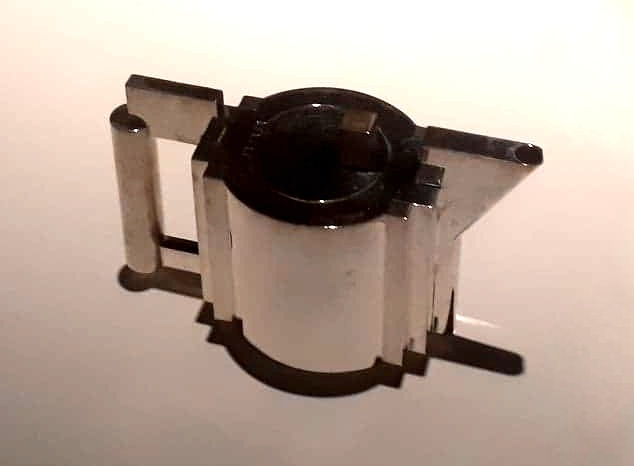 Mäntyniemi silverware by Timo Sarpaneva from 1992, designed for the new, eponymous Presidential residence of Finland.